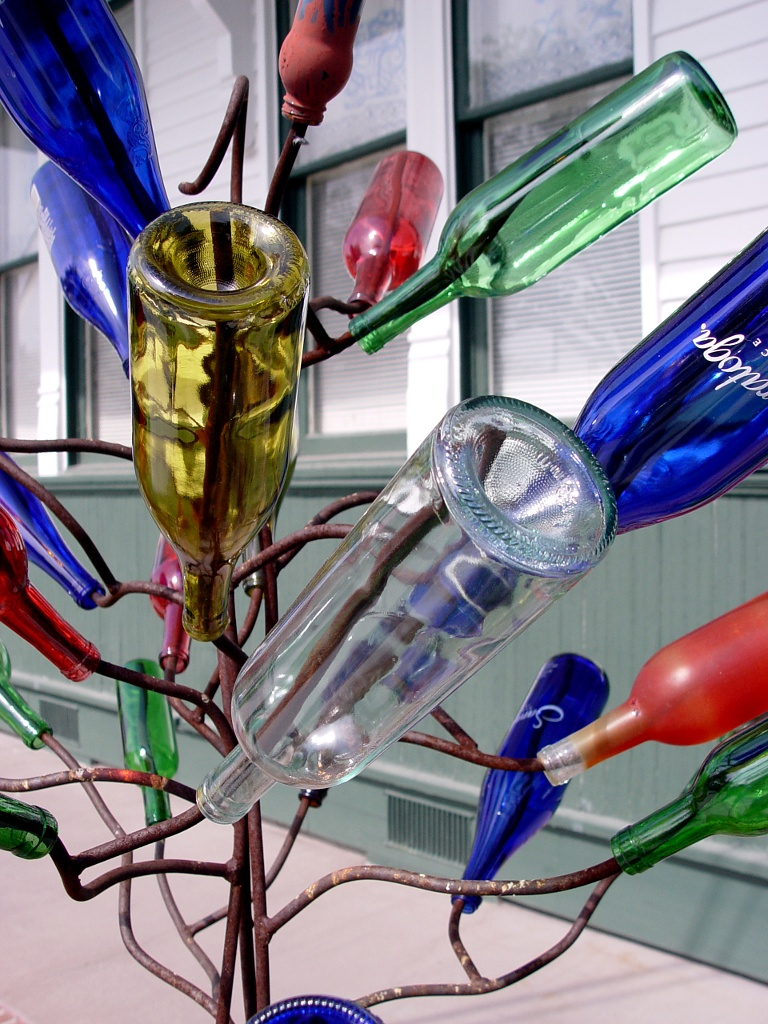 Bottle tree, photographed at the 36th Annual Ocean Springs- Elks Mardi Gras Parade, Ocean Springs, Mississippi.